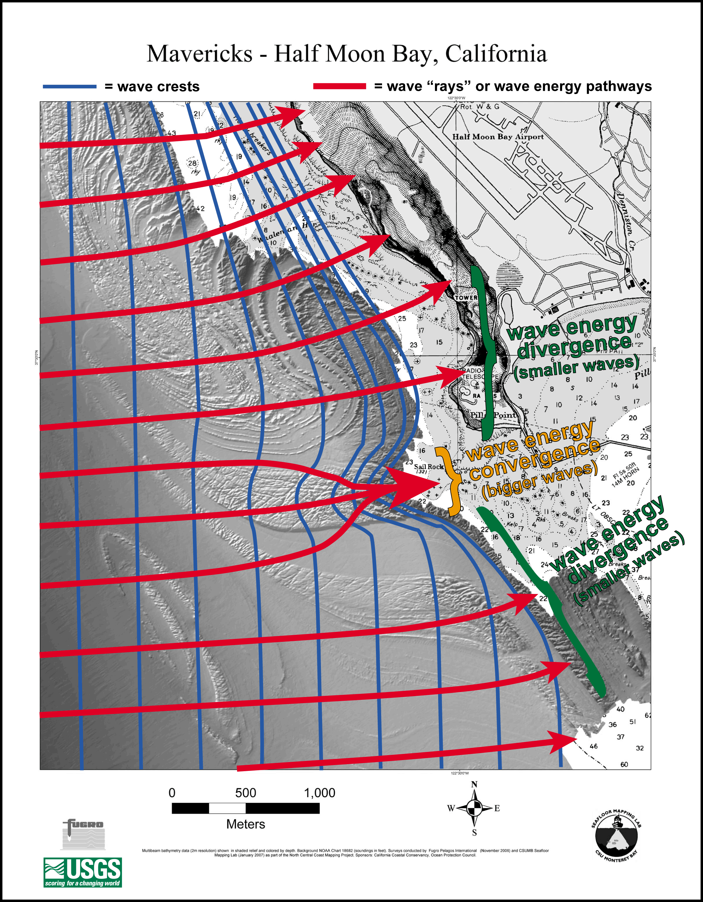 Diagram showing the effect of the bathymetry near the Mavericks surf break on the waves there.